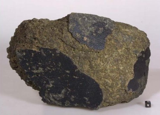 Yamato 000593 – 13.7 kilograms - Meteorite from Mars found on Earth. Photograph of Y000593 kindly provided by Paul Buchanan, NIPR. Per observation by Mike Zolensky, this is a view of the “least weathered side.” Tiny cube is 1 cm (for scale)